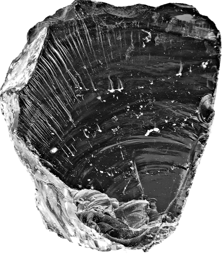 Ventral face of a experimental flake in Obsidian